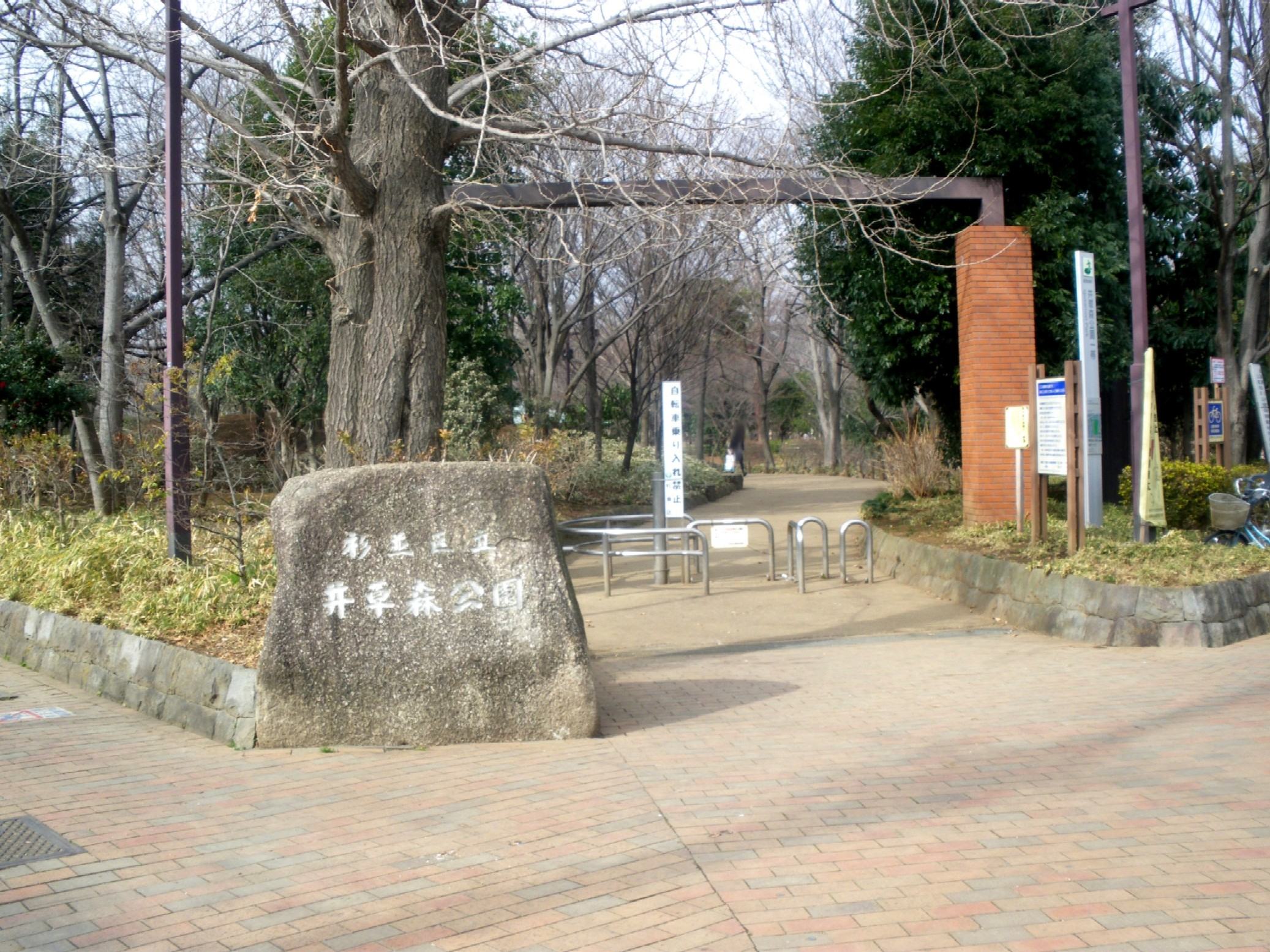 A photo of an entrance of Igusa Mori Park,Igusa,Suginami-ku,Tokyo,Japan.